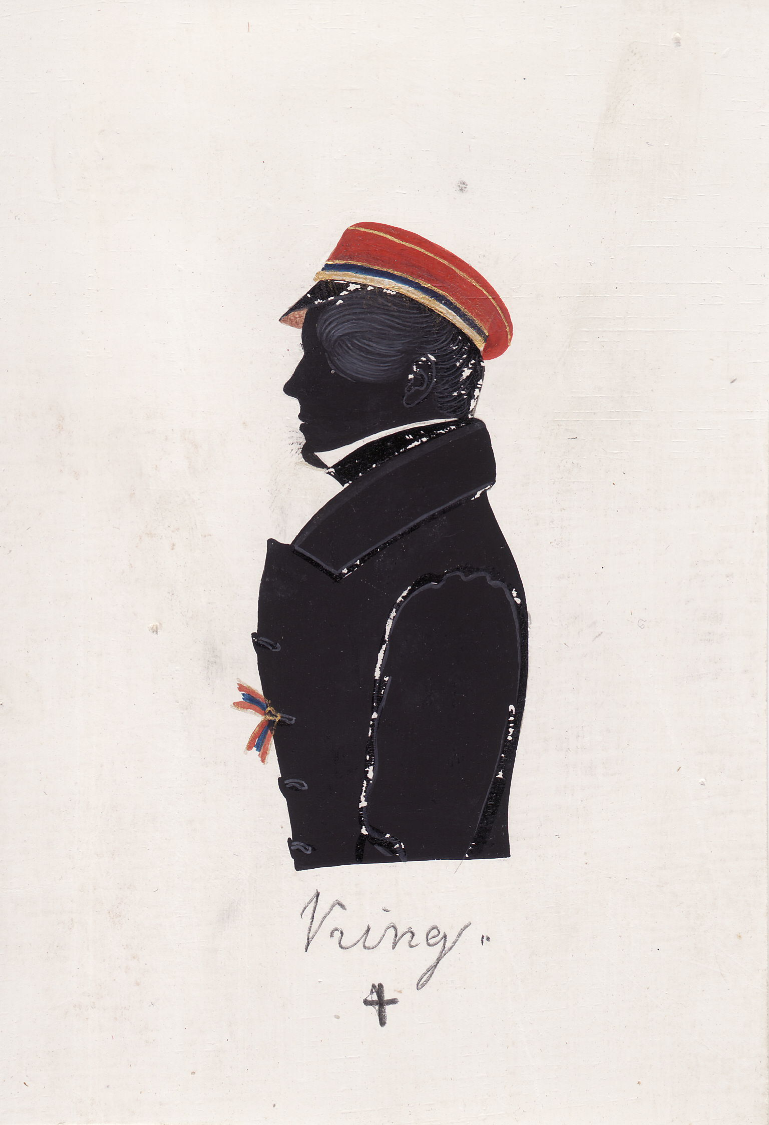 Silhouette of Mitchell Campbell King of Charleston, South Carolina, as a student at Göttingen University in 1832/33. He is shown as a member of the German student Corps Hannovera Göttingen wearing a cap in Hanoverian colours and indicating the red-blue-red ribbon.